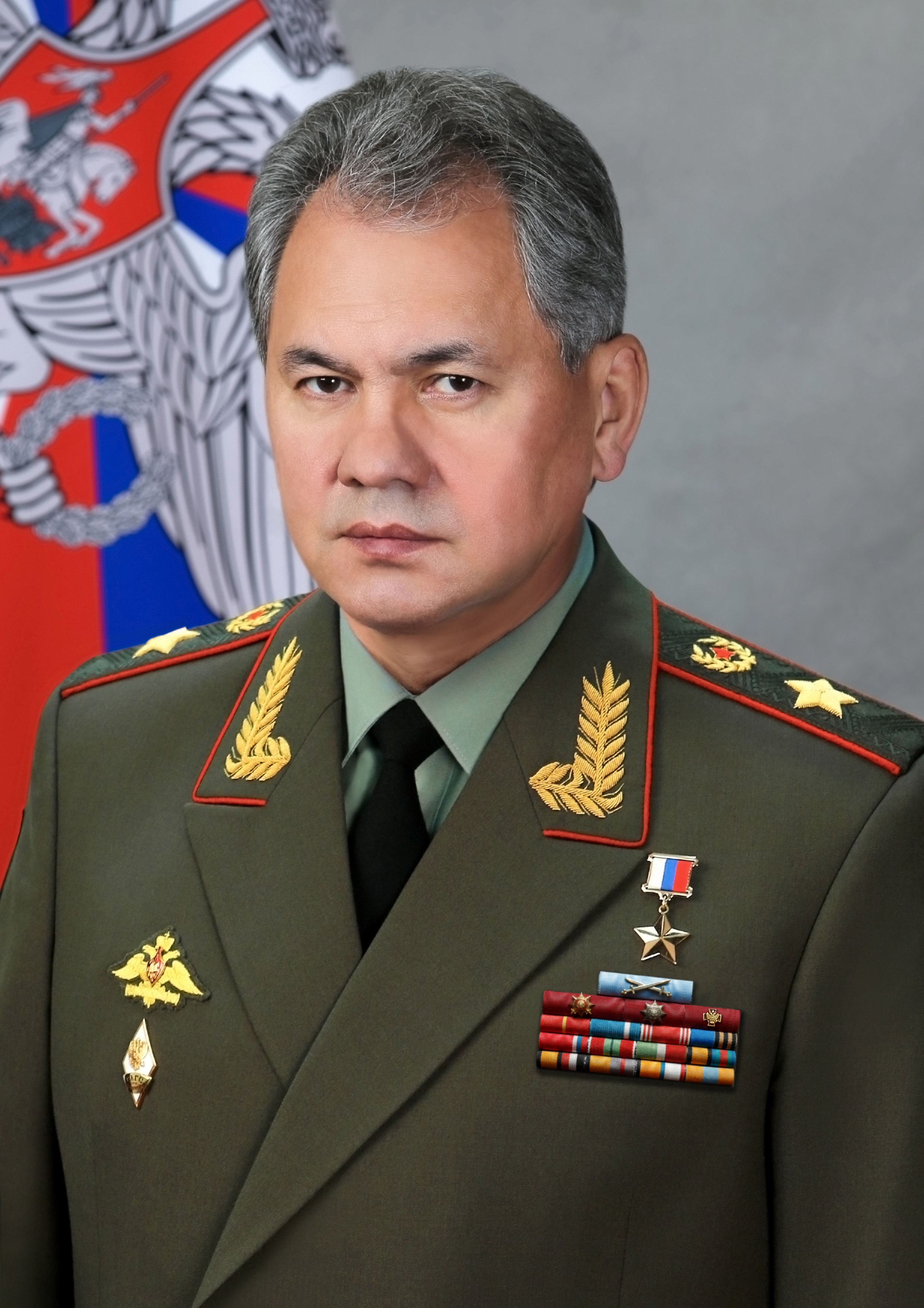 Official portrait of Sergey Shoigu